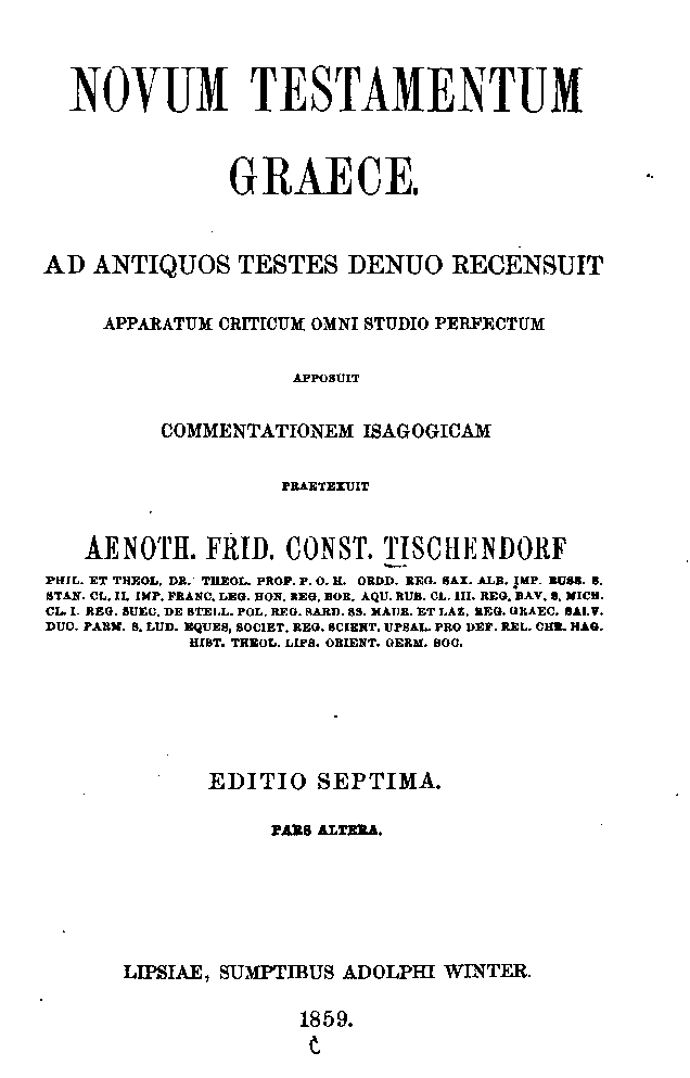 Title page from Tischendorf's Novum Testamentum Graece, 1859 editio septima